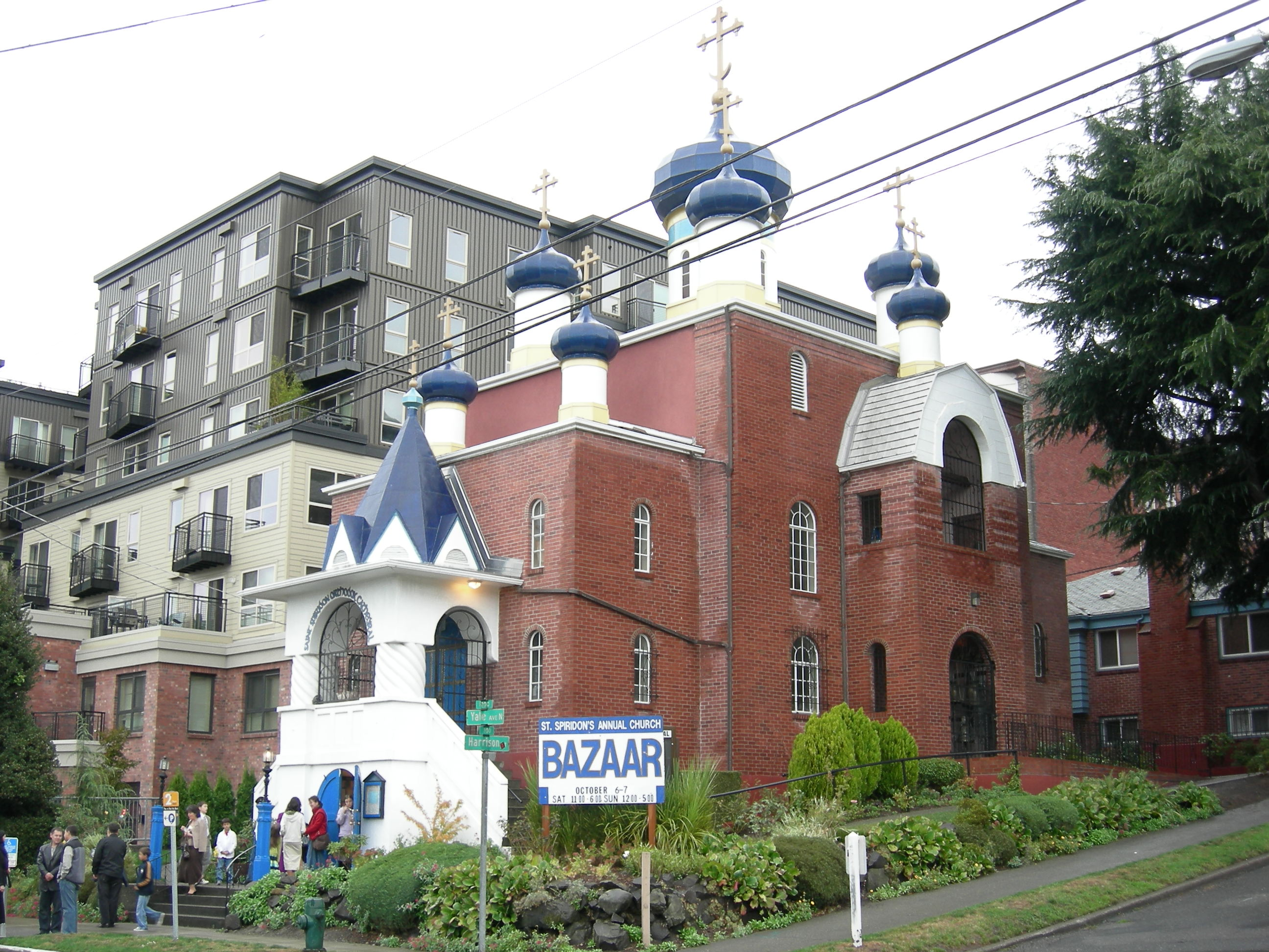 St. Spiridon Russian Orthodox Cathedral, also known as Greek Catholic Cathedral of St. Spiridon (affiliated with Orthodox Church in America), Seattle, Washington, USA. An official Seattle city landmark.